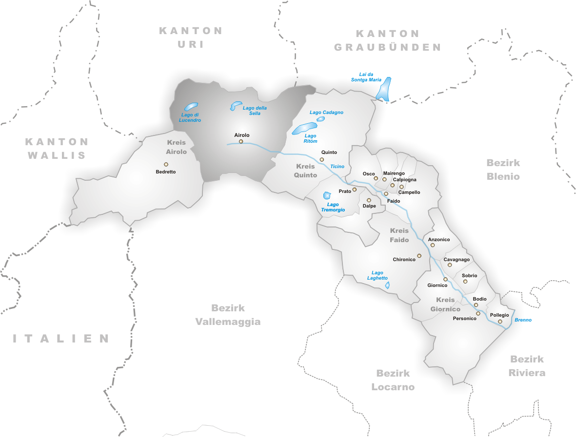 Municipality Airolo